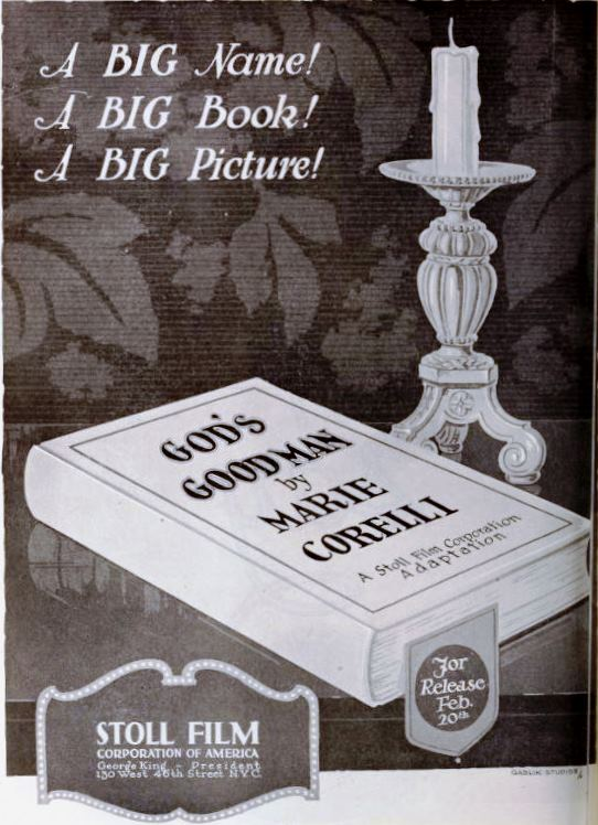 1921 American advertisement for the British film God's Good Man (1919), on page 12 of the March 5, 1921 Exhibitors Herald. Ad consists of a drawing with no stills from the film.